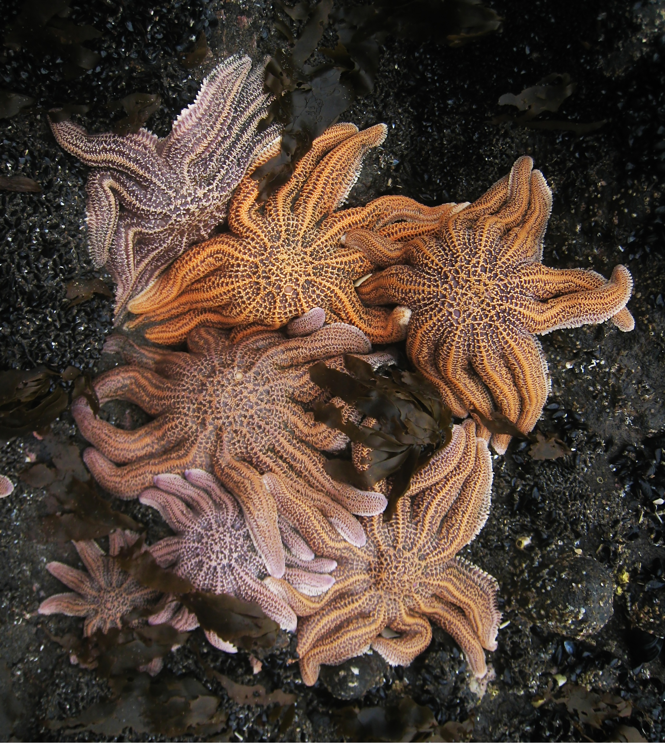 A constellation of reef starfish (Stichaster australis), at low tide level just north of Lion Rock, Piha, near Auckland, New Zealand.